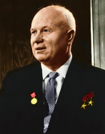 Soviet Premier Nikita Khrushchev in Vienna.